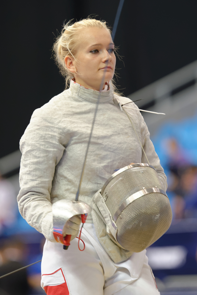 Poland's Angelika Wątor at the women's sabre event of the 2015 World Fencing Championships on 14 July 2014 at the Olympic Stadium in Moscow.